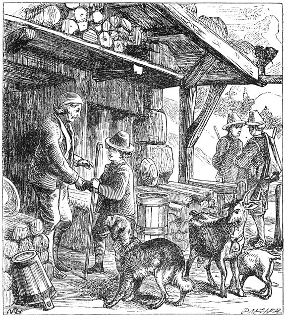 From 'Andersens Sproken en vertellingen' by Hans Christian Andersen, Titia van der Tuuk (ed.) and Simon Jacob Andriessen (trans.). Gebroeders E. & M. Cohen, Nijmegen - Arnhem. Illustrated by Alfred Walter Bayes (1832-1909) and engraved by the Dalziel Brothers (Edward Daziel, 1817-1905; George Daziel, 1815-1902).